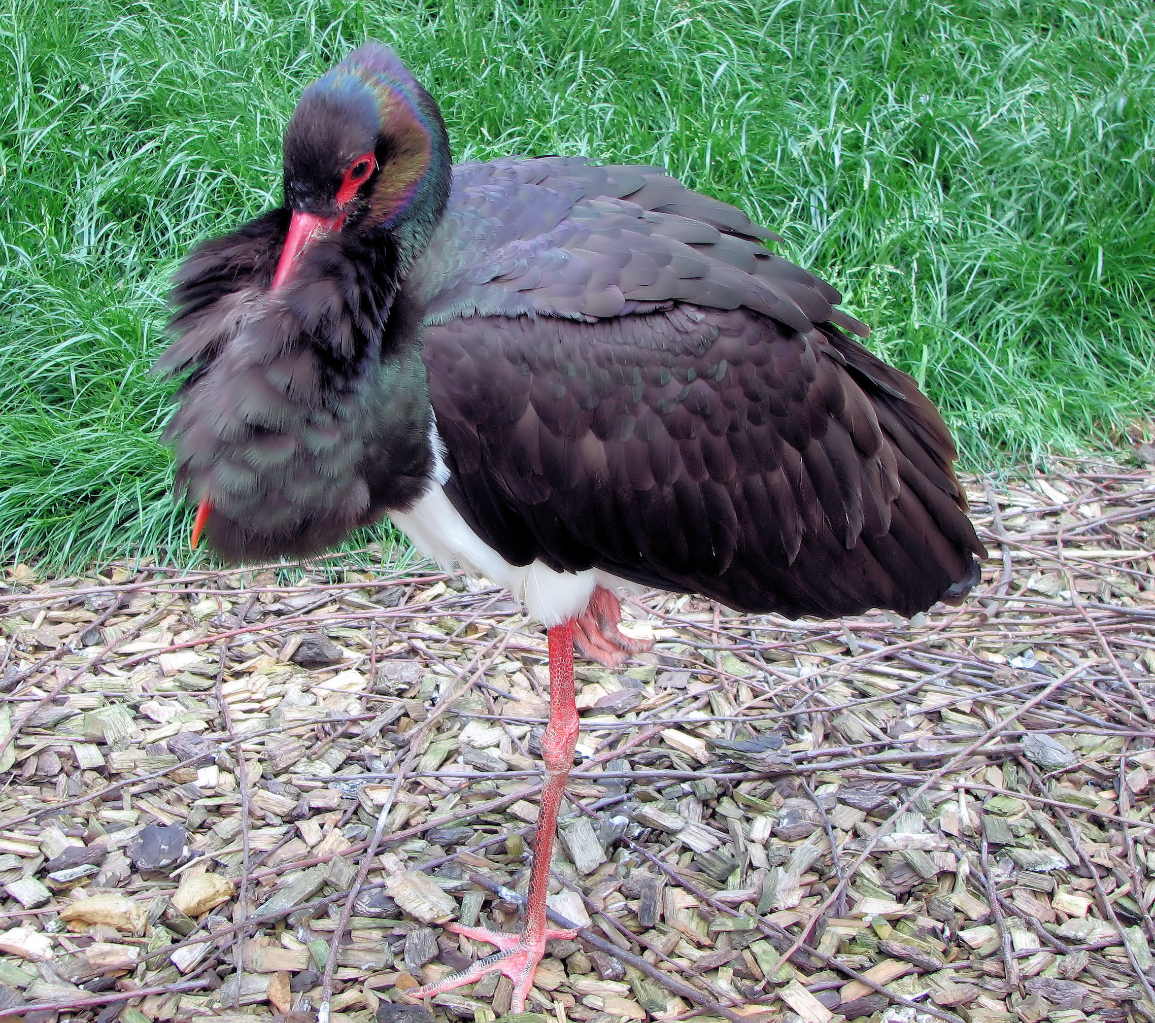 Black Stork Ciconia nigra at the Cotswold Wildlife Park, Oxfordshire, England.